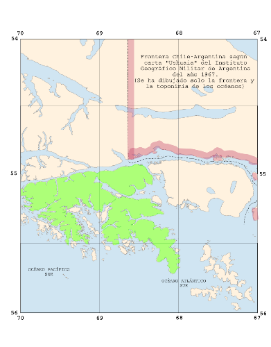 Hoste Island on a map of the southern part of the Archipelago of Tierra del Fuego, Borderline Chile-Argentina according to a map edited 1967 by the Argentine "Instituto Geografico Militar". The map is included in the book "El Conflicto del Beagle", edited by the Chilean Foreign Affairs Office, 1978, Switzerland.